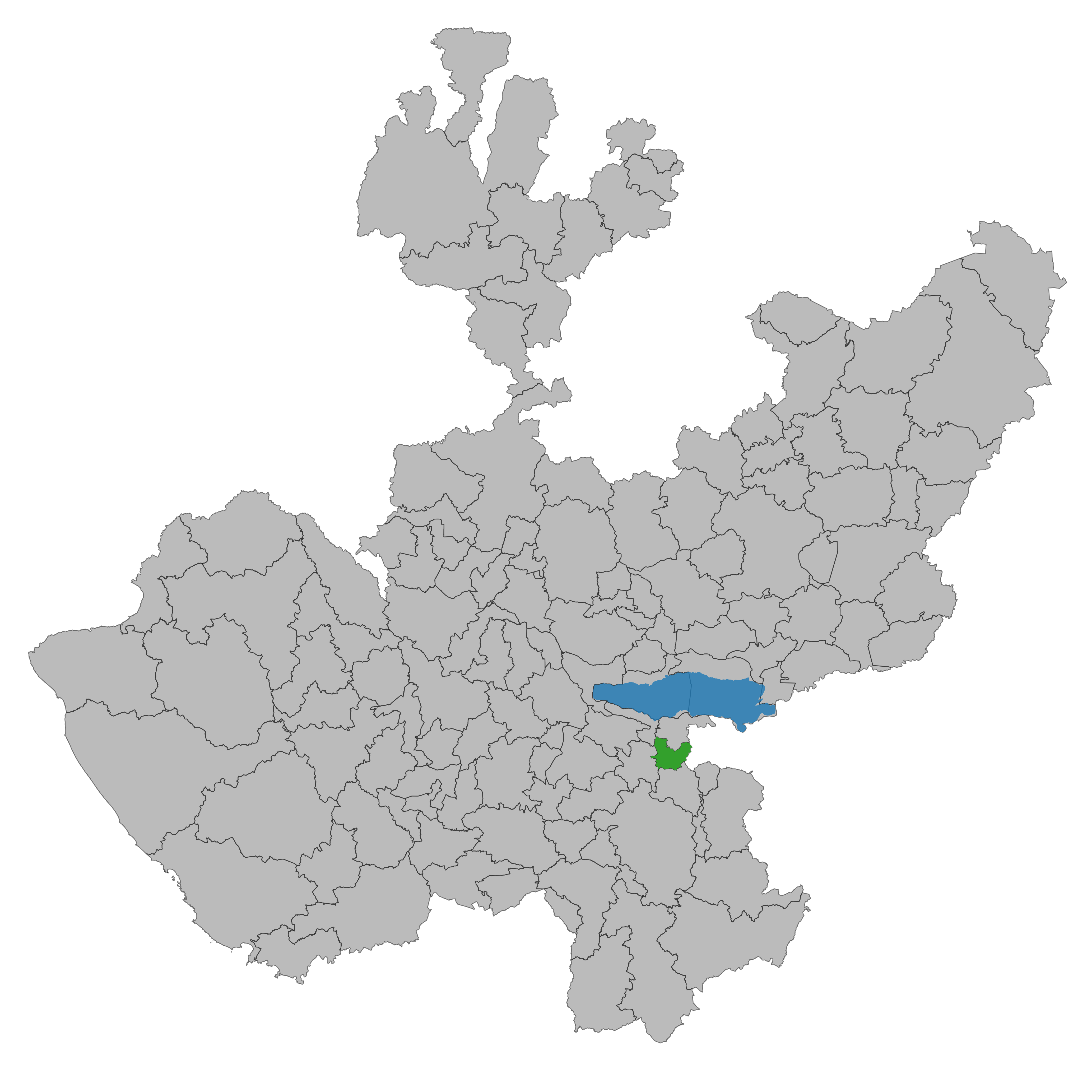 Municipality of Jalisco. Prepared with the software QGIS version 2.8.2 Wien & with information of SCINCE 2010 version 05/2013